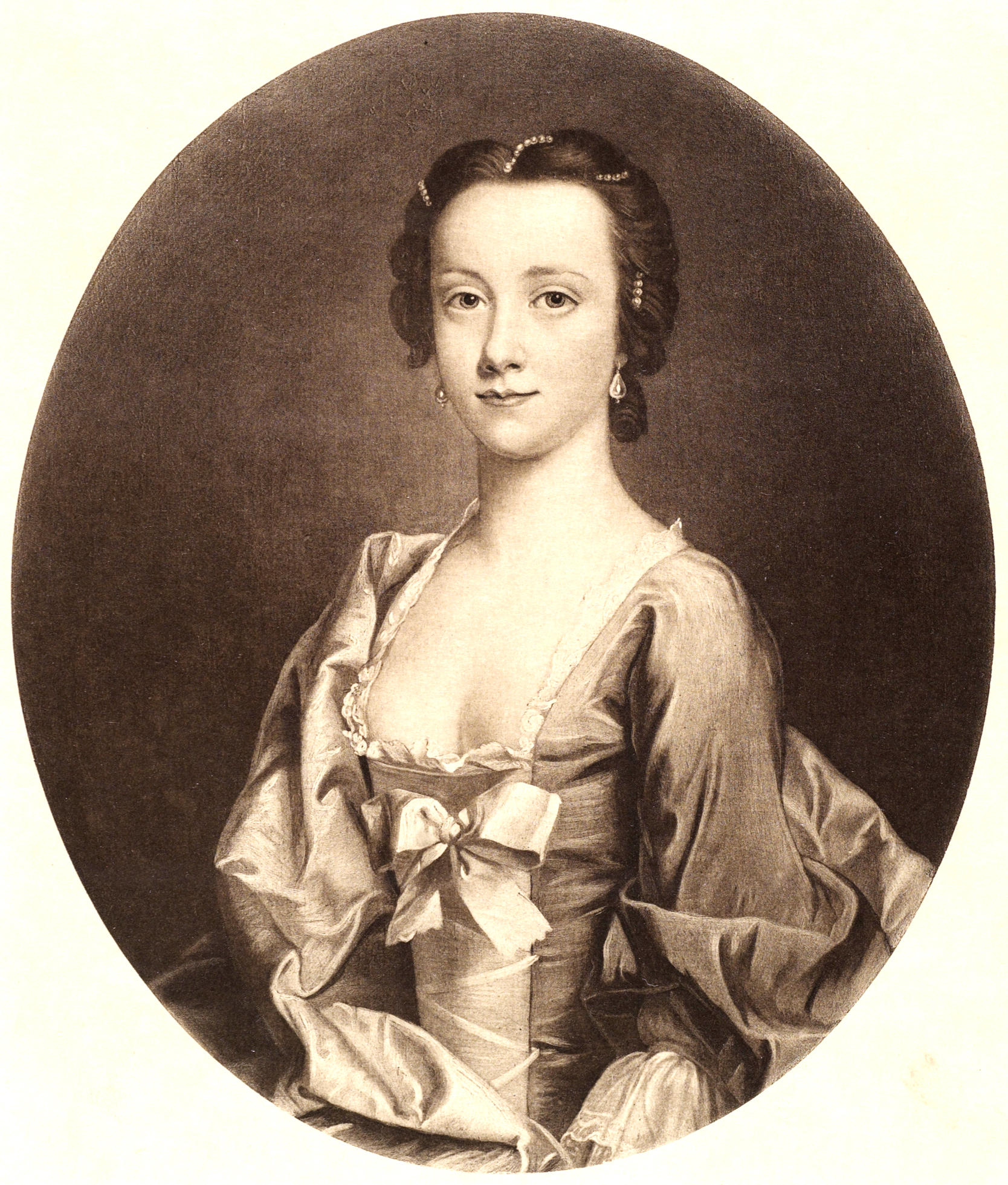 Portrait Jenny Cameron, c. 1700-1790. Adventuress, supporter of Charles Edward Stuart Portrait of Jenny Cameron from waist up, looks younger than in other portraits (has dark hair, not a wig or light hair)